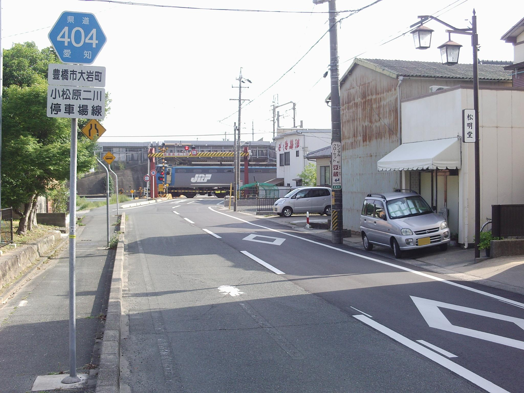 Aichi prefectural road No.404 in Oiwacho, Toyohashi, Aichi.